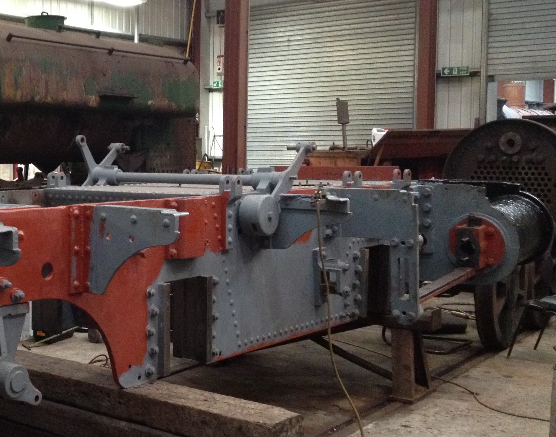 Famed for it's appearance in the Channel 4 programme "Time to Go" as Fred she's undergoing a major restoration to return her to working order inside the Riverside workshop at Ribble.